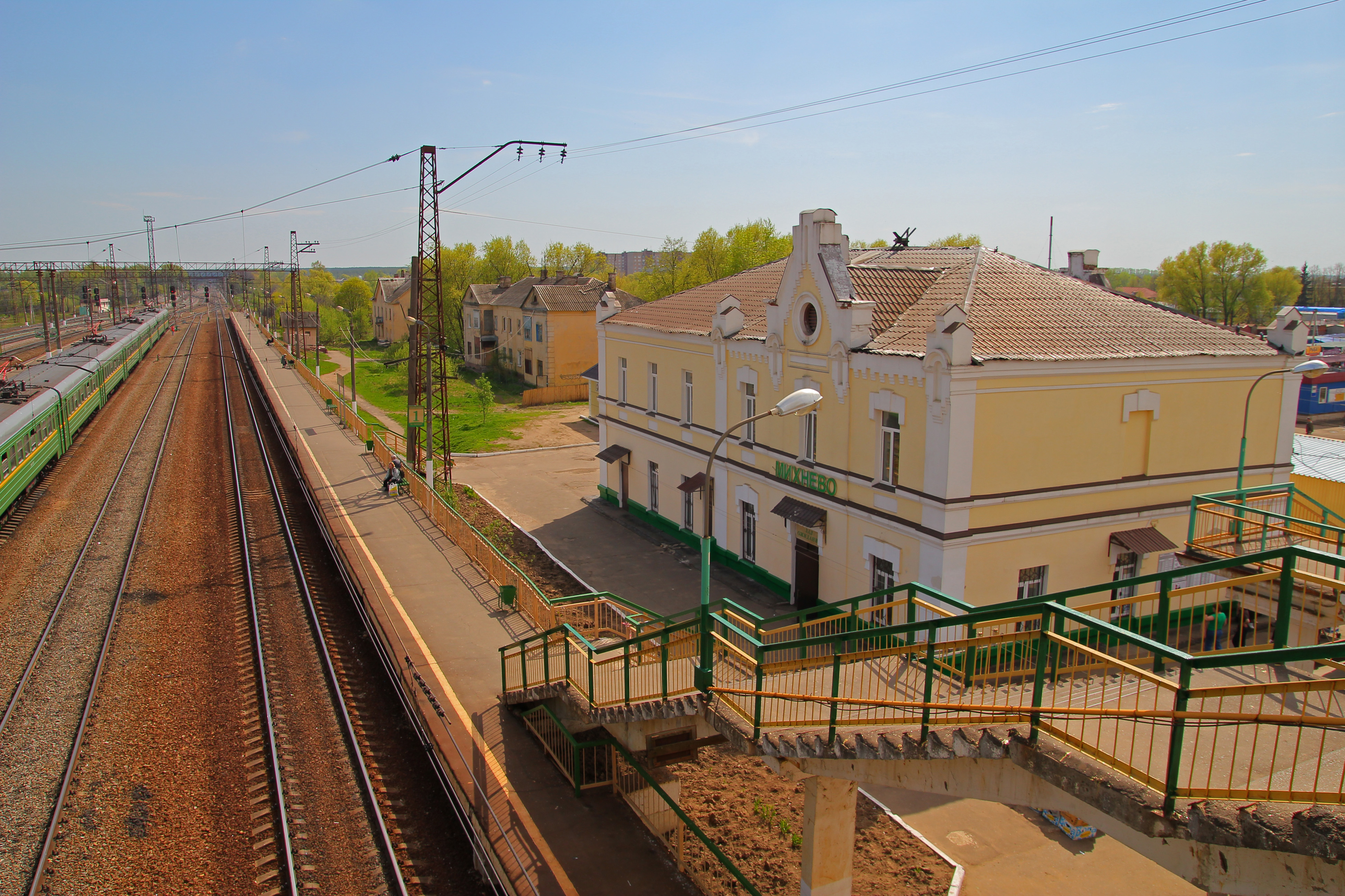 Mikhnevo train station in Moscow Oblast